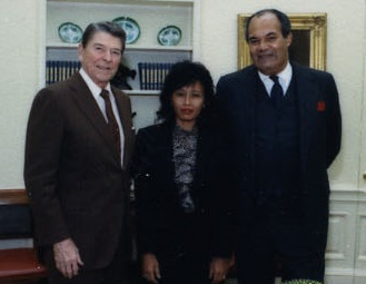 Ronald Reagan, Tengku Palmer, and Ronald D. Palmer in the Oval Office